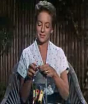 Screenshot of Evelyn Keyes from the theatrical trailer for the 1955 film The Seven Year Itch